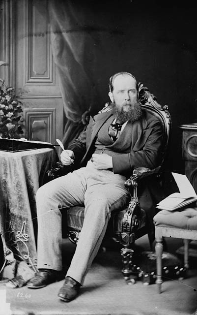 Joseph Trutch, June 1870. Photo by William James Topley. Online from Library and Archives Canada PA-025343 [1]